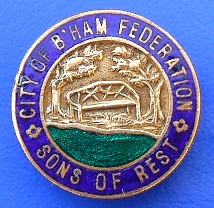 Sons of Rest (SoR) were a network of social clubs situated mainly around Birmingham (West Midlands) to provide leisurely and recreational activities for the use of ex-Servicemen. The SoR movement was founded by Lister Muff (1852-1938) in 1927 and their first purpose-built clubhouse was opened in 1930 at Handsworth Park, Birmingham. Many more followed and at the movement’s peak there were some 29 SoR clubs having over 3,000 members. Interestingly, clubhouses were usually sited within the city’s municipal parklands. After WW2 membership was extended to included retired and elderly persons from within the club’s local community. In more recent times, many SoR became extinct as membership dwindled to zero while the remaining clubs face an uncertain future due to cutbacks in local authority funding. Presumably, this membership badge would have been used by all SoR clubs within the Birmingham City area. (Snippets of information about the SoR in Birmingham - information no longer there). . Enamels: 2 (blue & green). Finish: Gilt. Material: Brass. Fixer: Pin. Size: 1” diameter (about 25). Process: Die stamped. Imprint: PARRY, B’HAM.